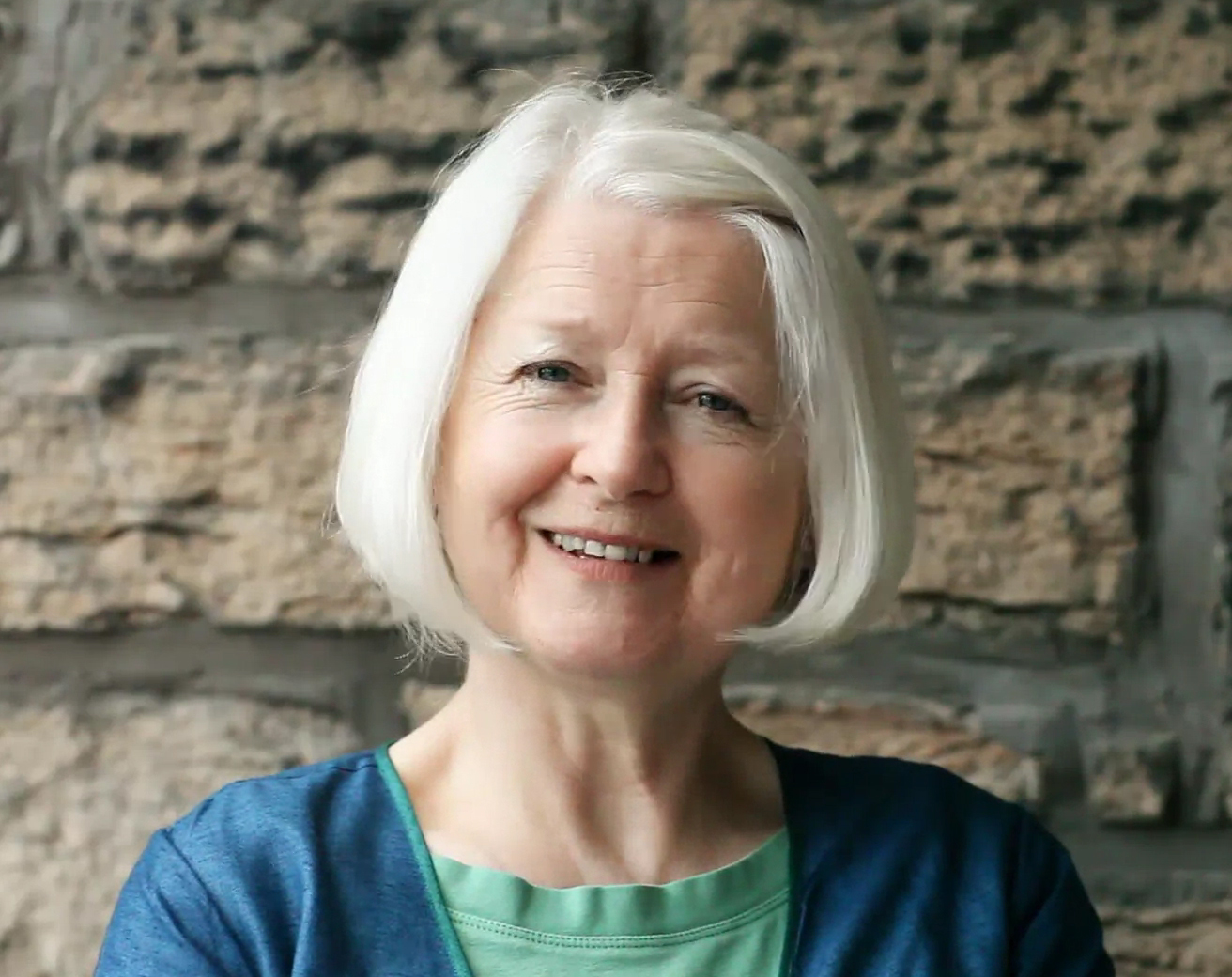 Christine De Luca speaking Shetlandic in Edinburgh, Scotland.